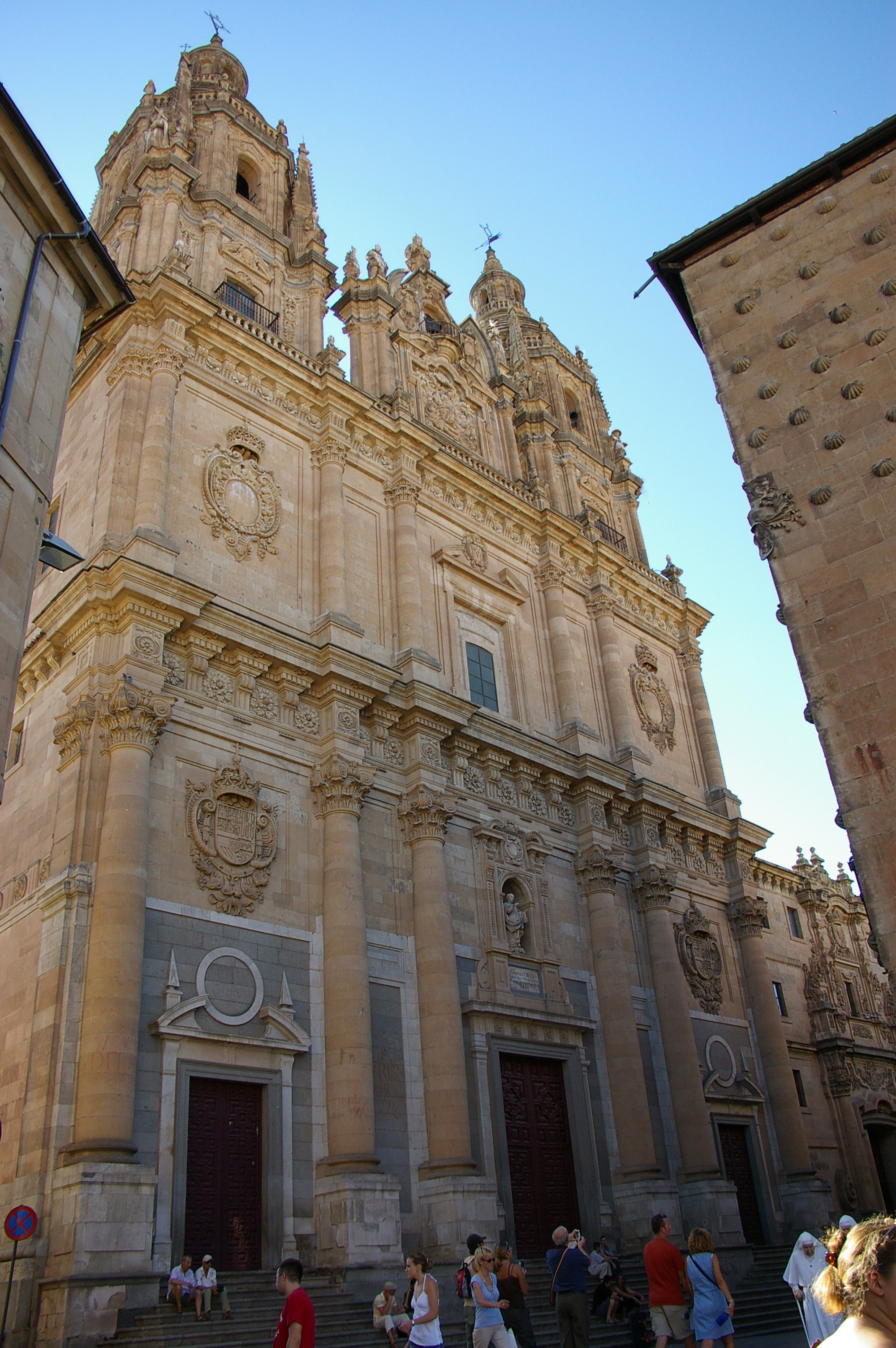 Facade of the pontifical university of Salamanca, also called 'La Clerecía'.